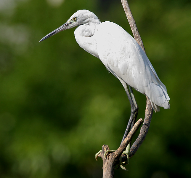 Little Egret Egretta garzetta at Lotus Pond, Hyderabad, India.